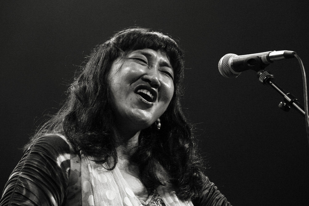 Saadet Türköz at Moers Festival 2006 own photo june 2, 2006 photo: nomo/michael hoefner